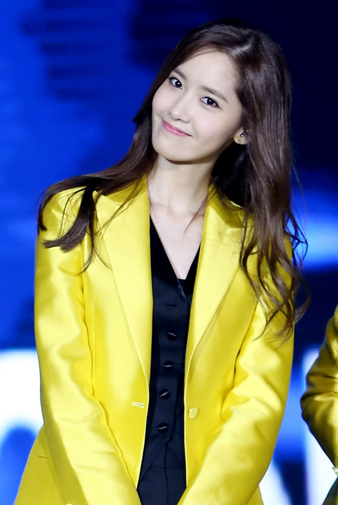 Yoona at Best of Best in Hong Kong on August 2, 2014.